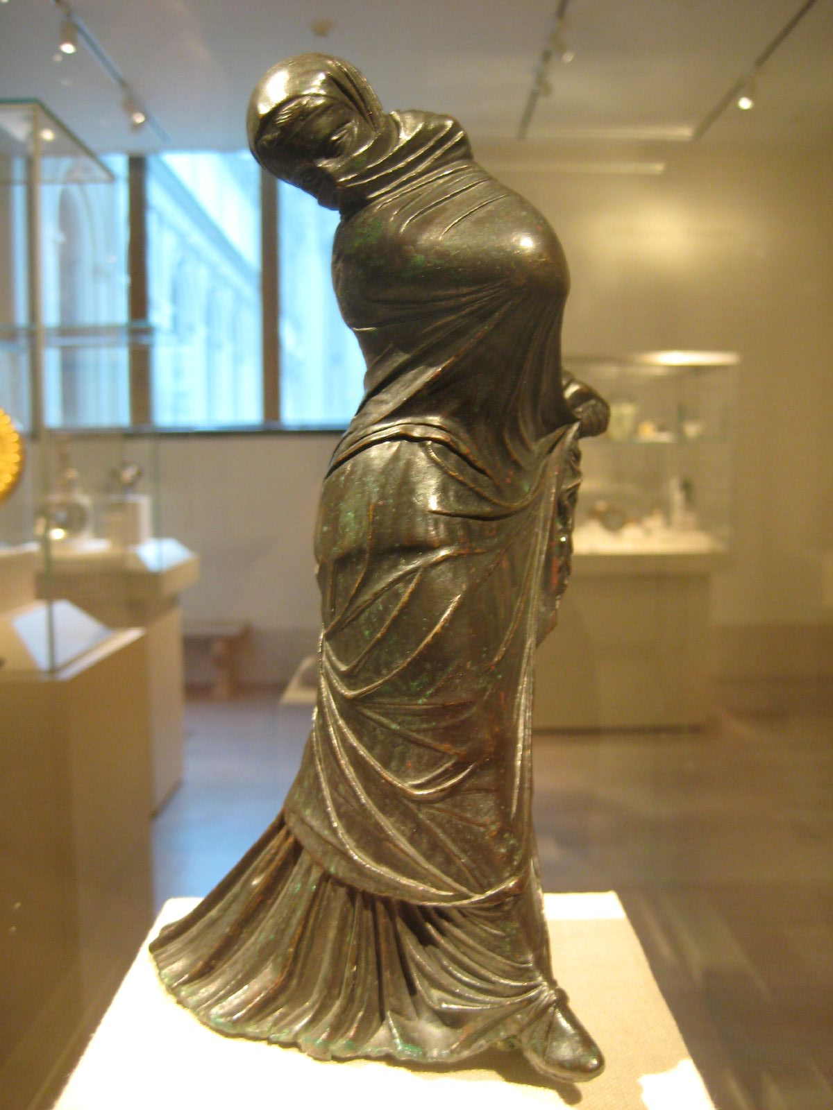 Bronze statuette of a veiled and masked dancer. Greek, 2nd–3rd century BC. Said to be from Alexandria, Egypt. Bequest of Walter C. Baker, 1971 (1972.118.95). The complex motion of this dancer is conveyed exclusively through the interaction of the body with several layers of dress. Over an undergarment that falls in deep folds and trails heavily, the figure wears a lightweight mantle, drawn tautly over her head and body by the pressure applied to it by her right arm, left hand, and right leg. Its substance is conveyed by the alternation of the tubular folds pushing through fron bellow and the freely curling softness of the fringe. The woman's face is covered by the sheerest of veils, discernible at its edge below her hairline and at the cutouts for the eyes. Her extended right foot shows a laced slipper. This dancer has been convincingly identified as one of the professional entertainers, a combination of mime and dancer, for which the cosmopolitan city of Alexandria was famous in antiquity.